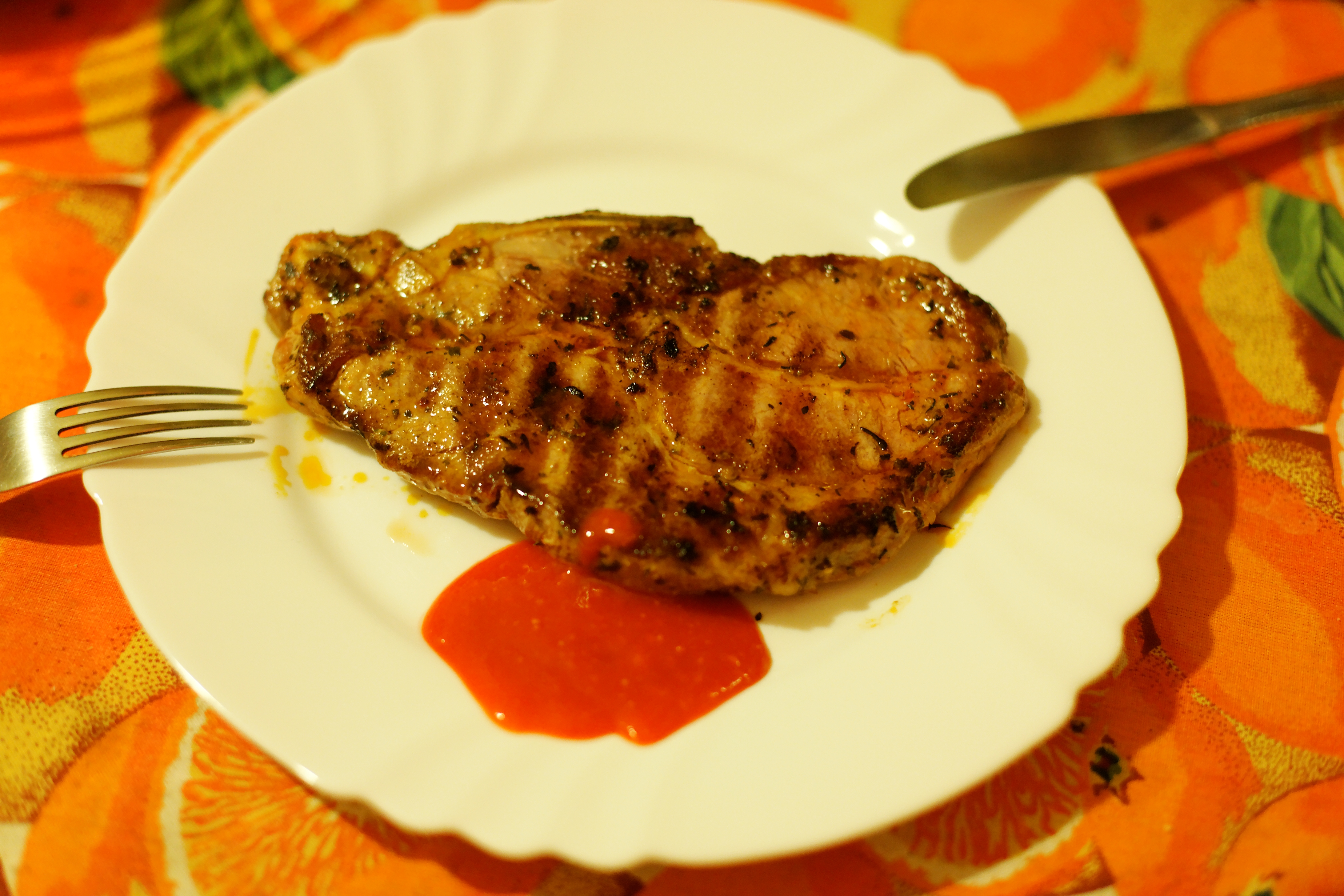 Pork steak